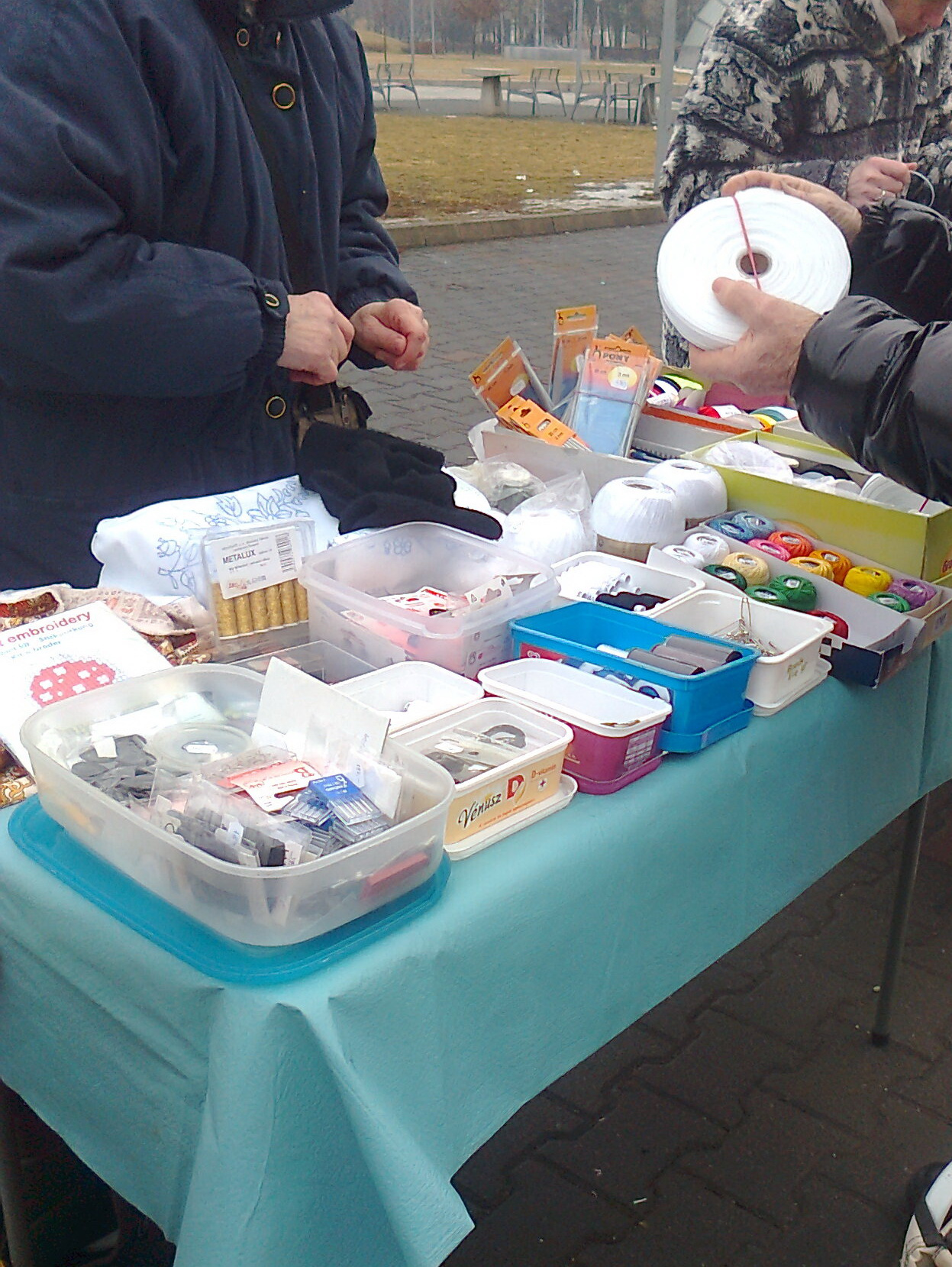 Haberdasher's stall on a market